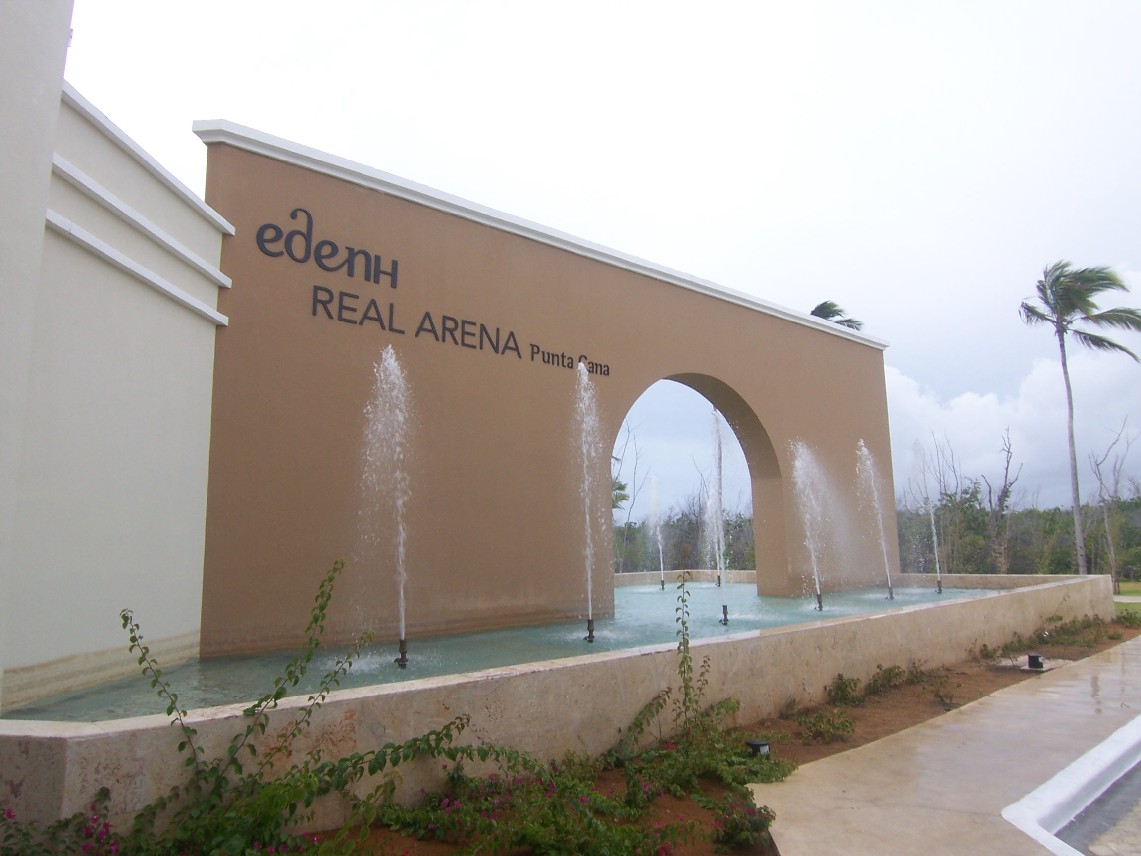 The sign at the EdenH Real Arena Hotel